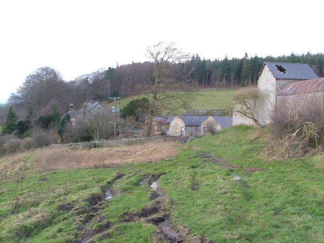 Cragend The farm and outbuildings seen from footpath 108/019, approaching from the east. The woodland beyond is the southeastern edge of the Cragside estate.